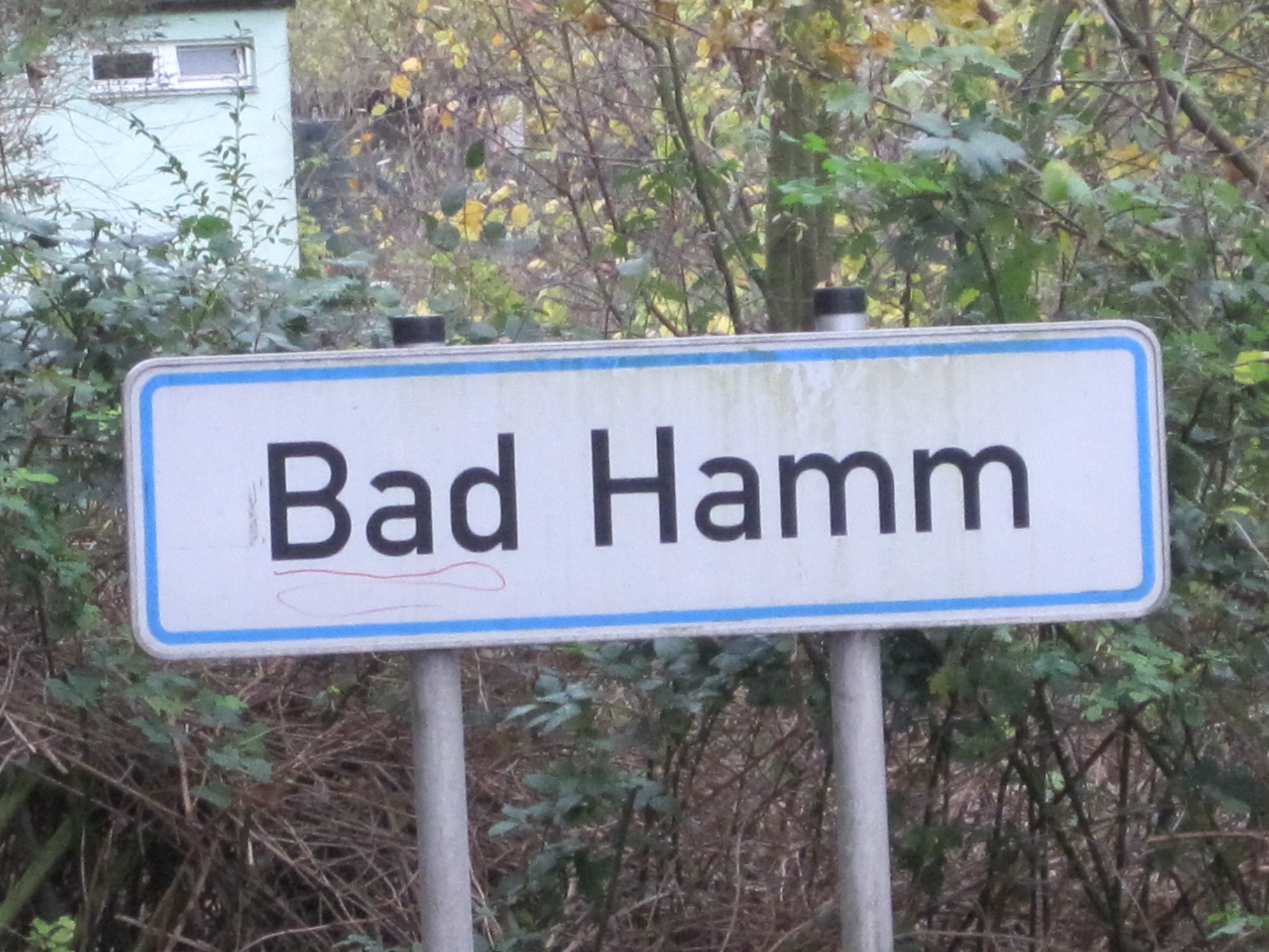 City of Hamm's road sign for it's quarter Bad Hamm.